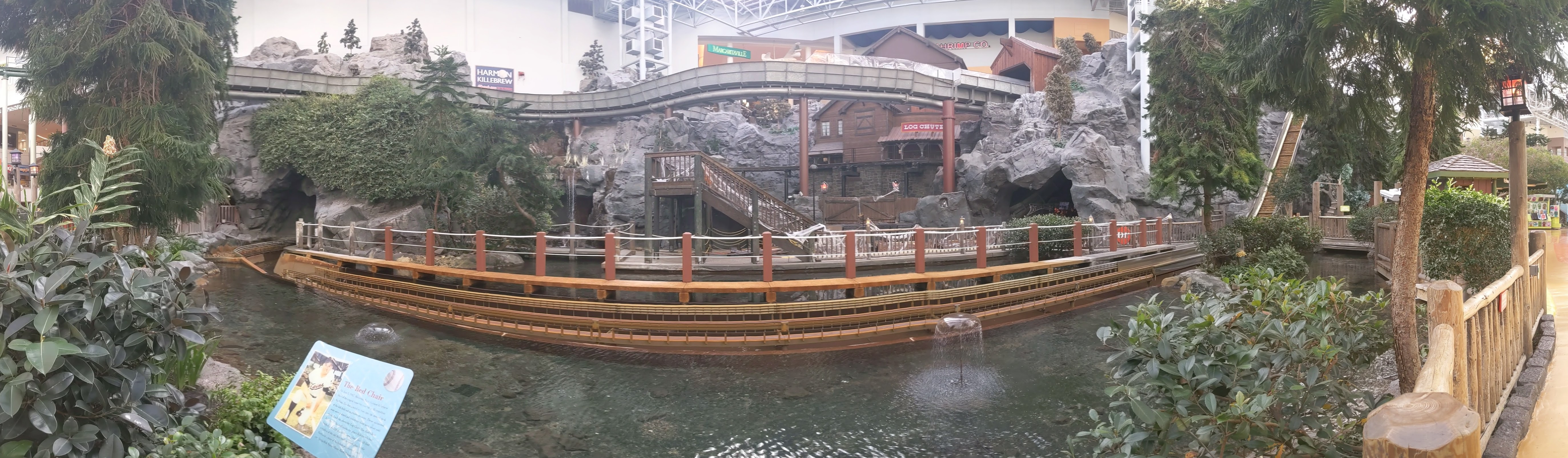 A panoramic photo of the Log Chute ride at Nickelodeon Universe in Mall of America. In the foreground is the loading area, splashdown area, and a plaque describing the "Red Chair" denoting a record-setting homerun by Harmon Killebrew (which can be seen in the background on the wall). In the background the ride's flume can be seen in front of several restaurants. NOTE: This image is a panorama consisting of multiple frames that were merged or stitched in software. As a result, this image necessarily underwent some form of digital manipulation. These manipulations may include blending, blurring, cloning, and color and perspective adjustments. As a result of these adjustments, the image content may be slightly different than reality at the points where multiple images were combined. This manipulation is often required due to lens, perspective, and parallax distortions.